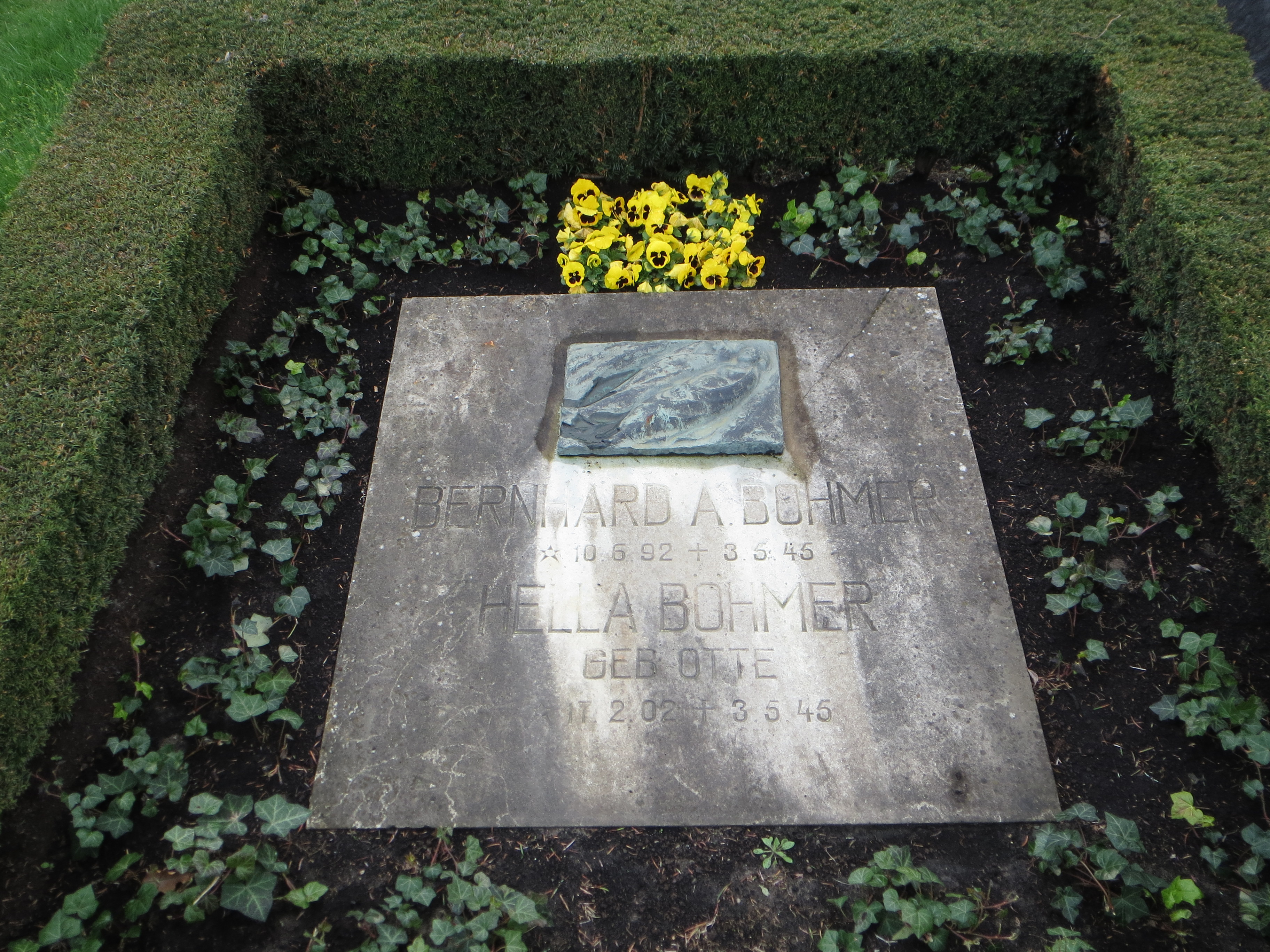 Guestrow Cemetery: grave of Bernhard A. Böhmer and wife